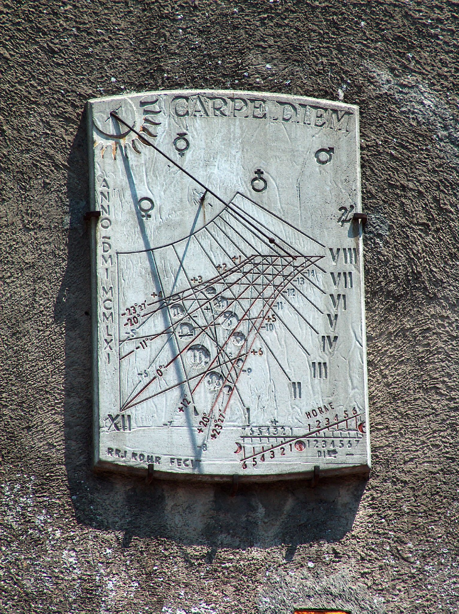 Sundial in Carcassonne (Aude, France). Made in 1961 by René R. J. Rohr (1905-2000). More information.